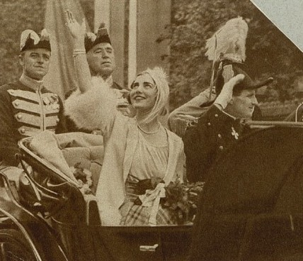 Ingrid (1910-2000) Queen Frederik IX (1899-1972) King of Denmark